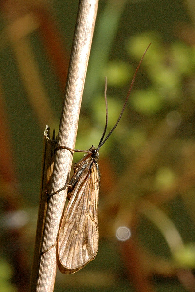 Picture taken in Commanster, Belgian High Ardennes . Species: Rhyacophila fasciata - misidentified, this is Phryganea sp.